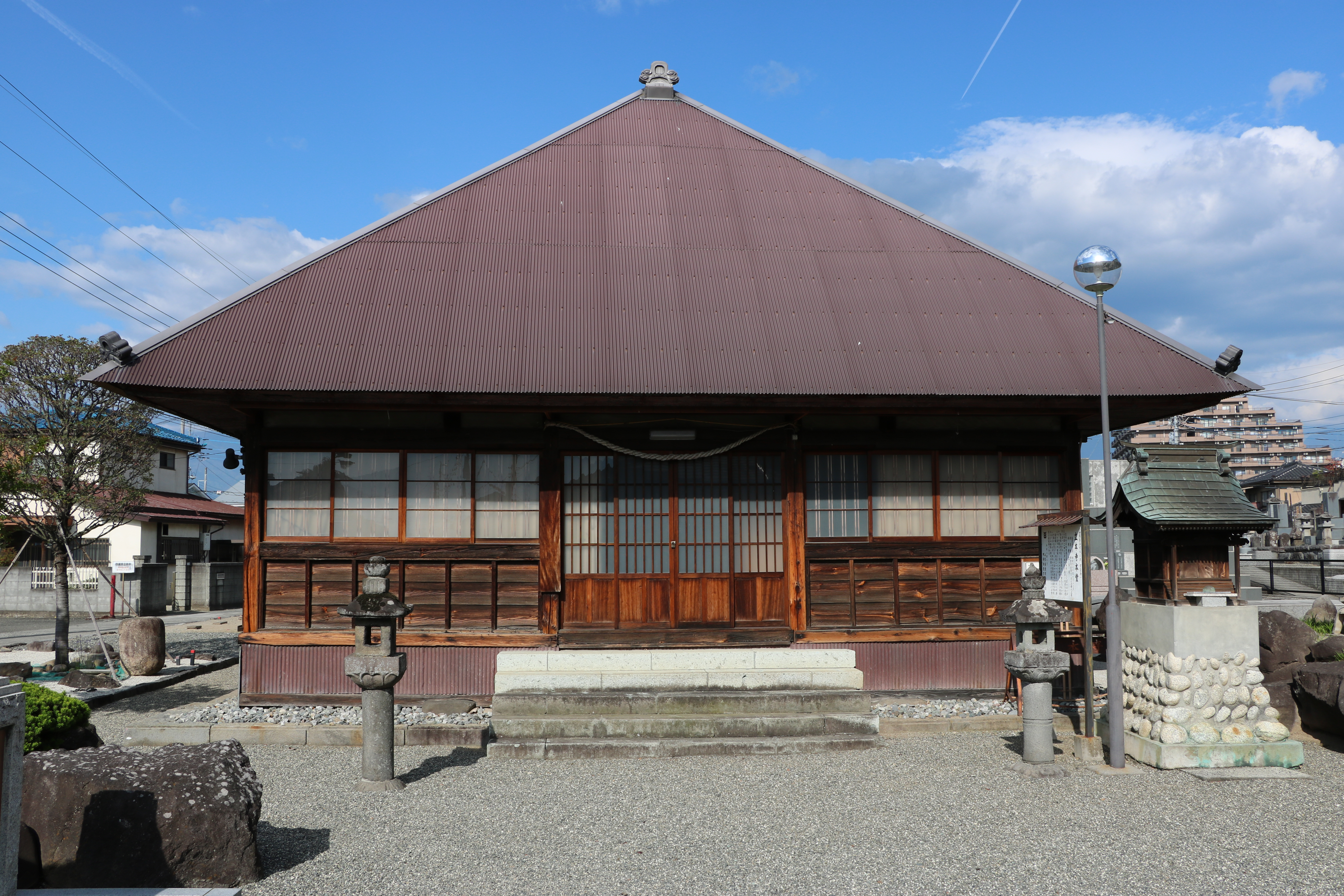 Ryuhon-ji temple (Kofu city), former main hall